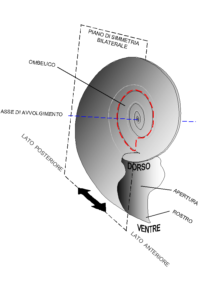 Generalized scheme of morphology and orientation of an ammonite shell. Text in italian